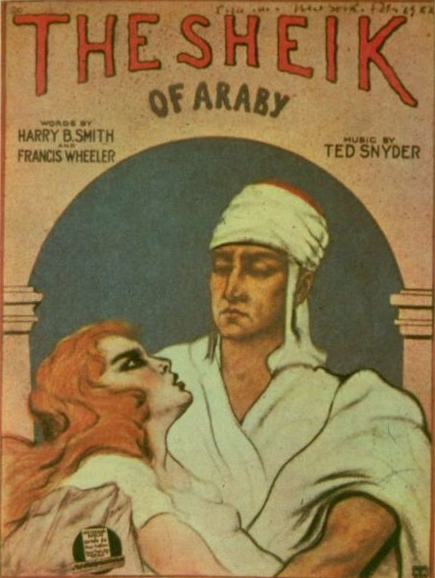 Sheet music cover of "Sheik of Araby". The song was written for the novel The Sheik but popularized by the film.